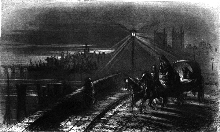 The Night by "Phiz" (Hablot Knight Browne) for Bleak House, p. 547 (ch. 57, "Esther's Narrative"). 3 3/4 x 6 1/8 inches.